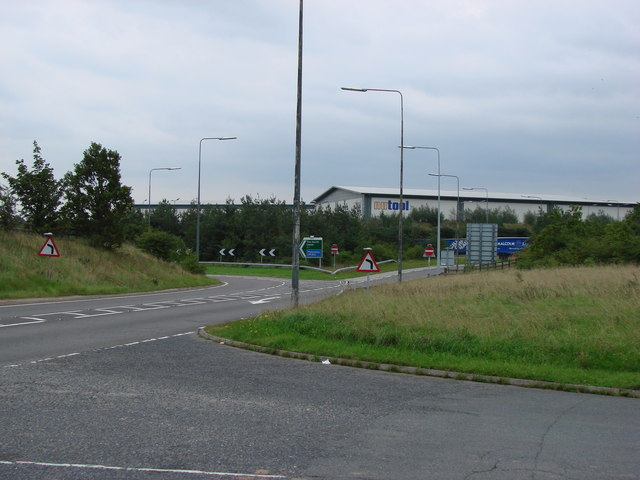 The Nu Tool factory, A1M junction with the A638 at Red House.